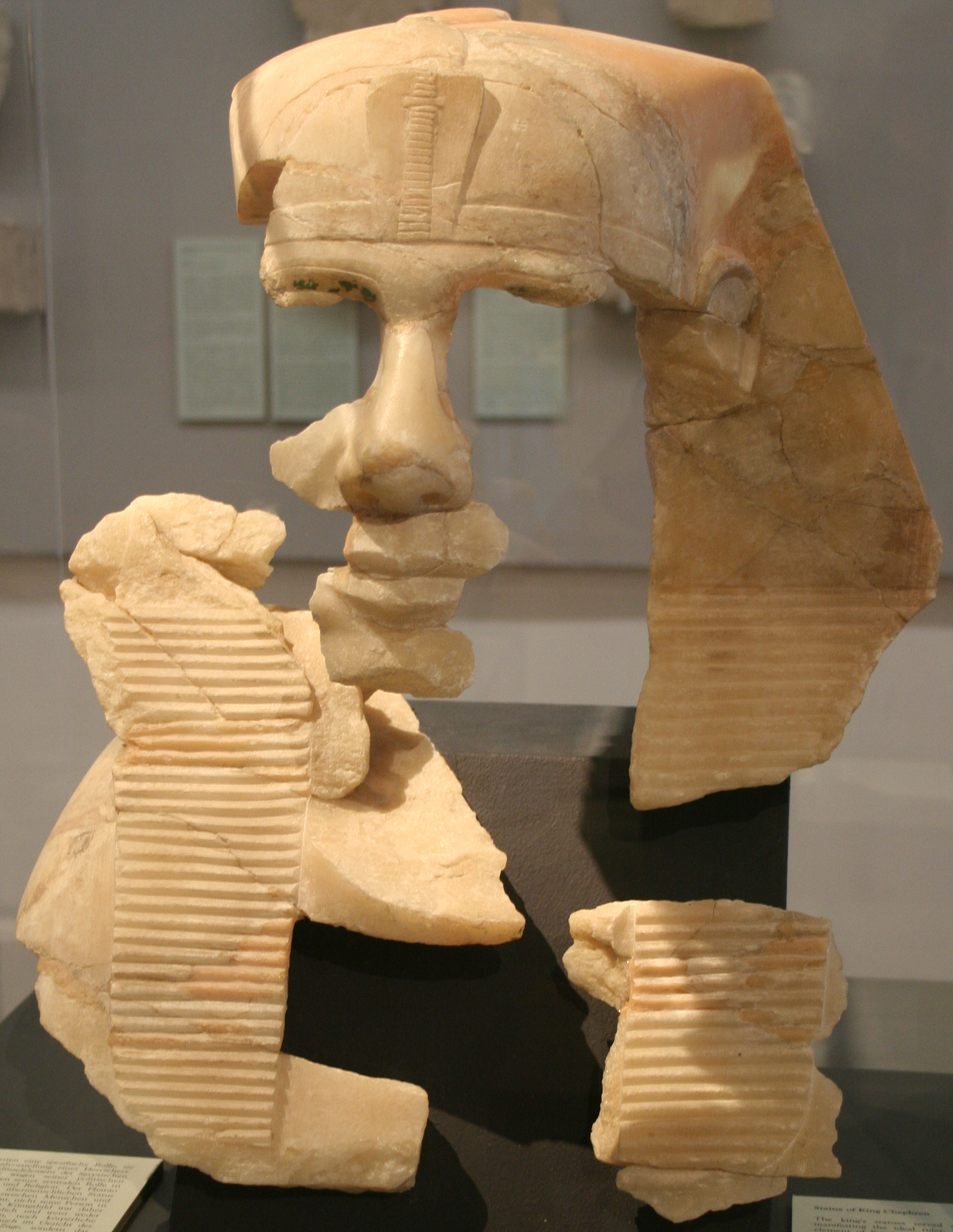 Fragments of a statue of Khafre, from Giza. Calcite. H 48.7 cm. IN 5415. Roemer-Pelizaeus Museum.